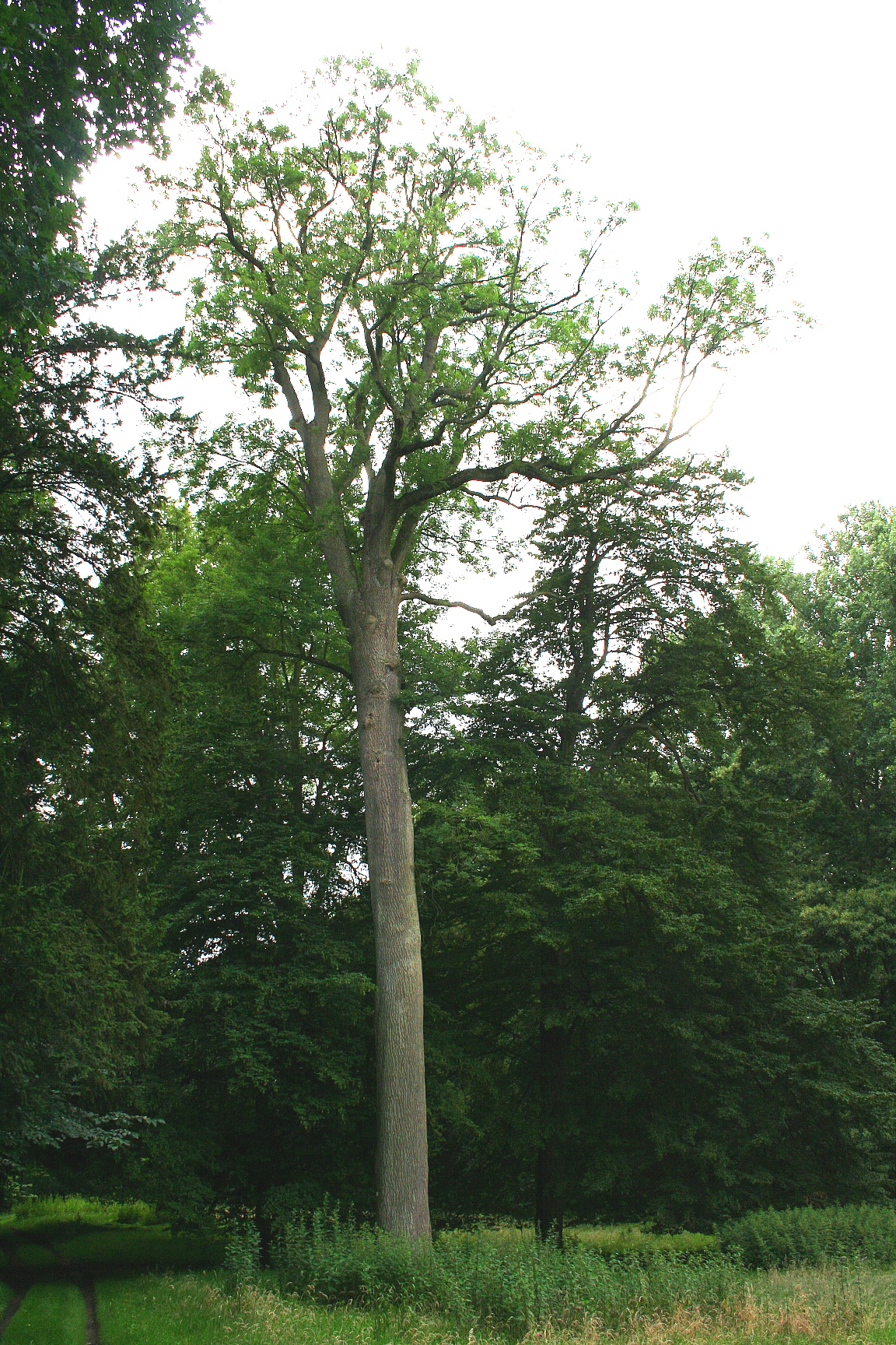 Ash.